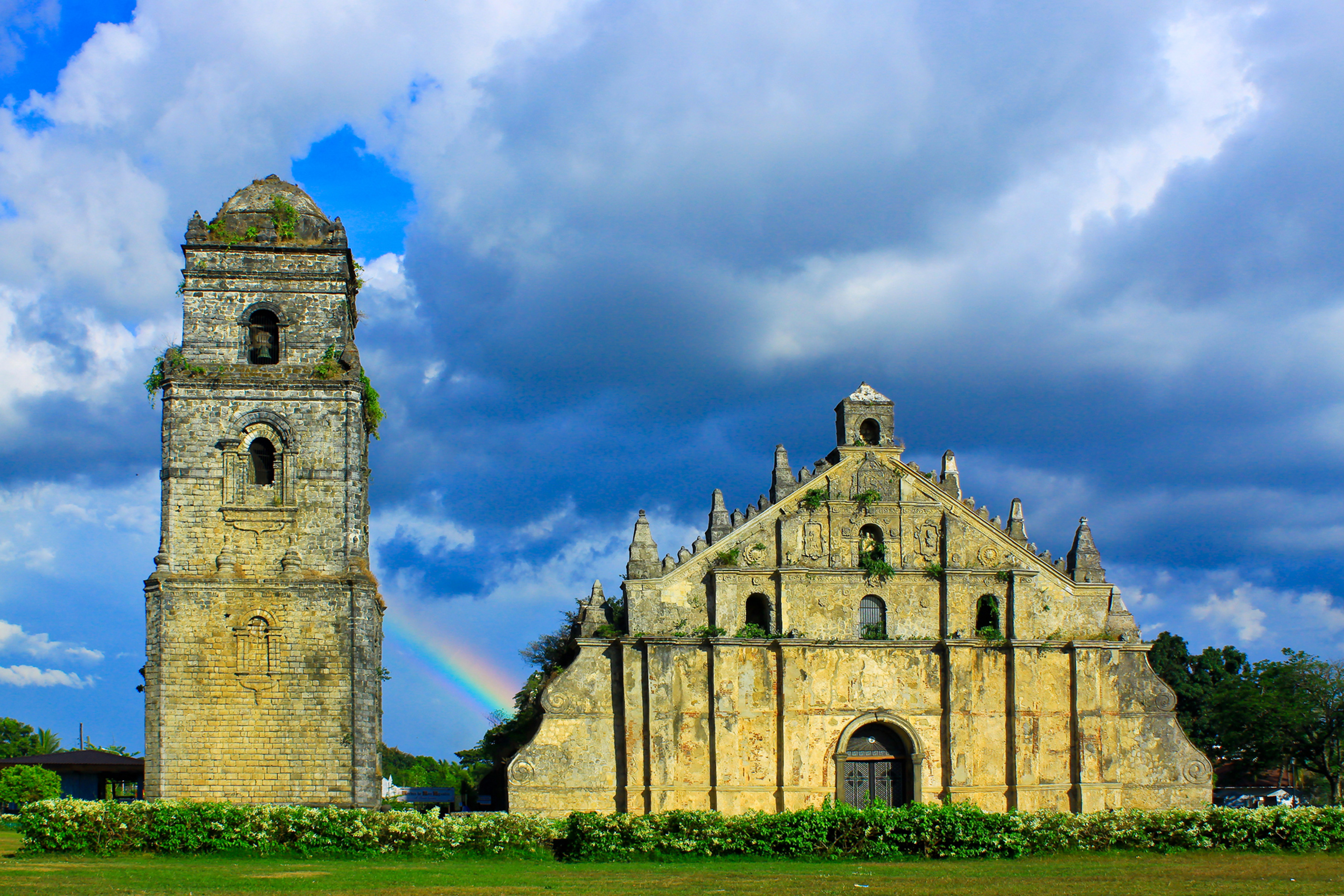 Paoay Church, Ilocos Norte, Philippines